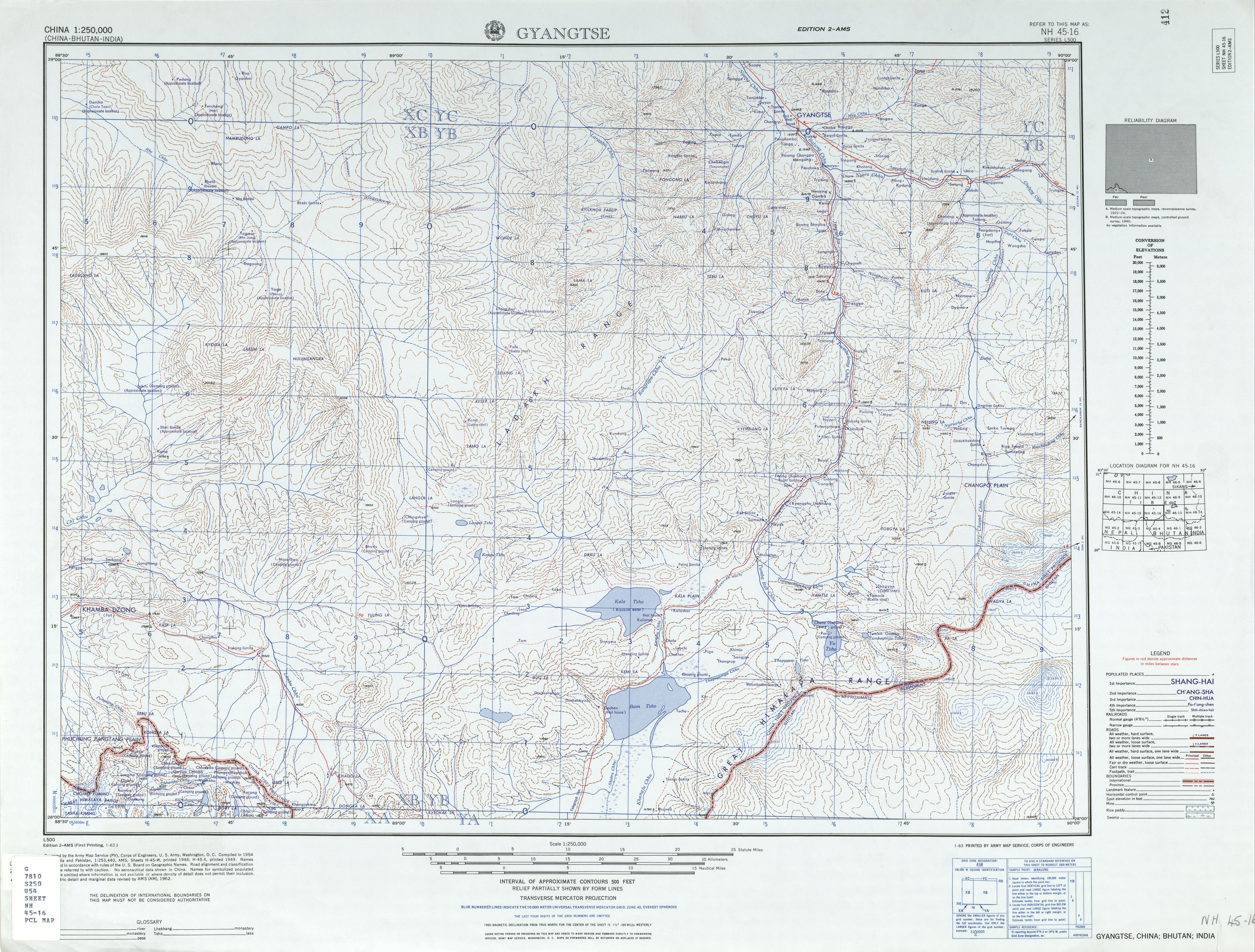 Map of Gyantse (Gyangtse) area, Tibet